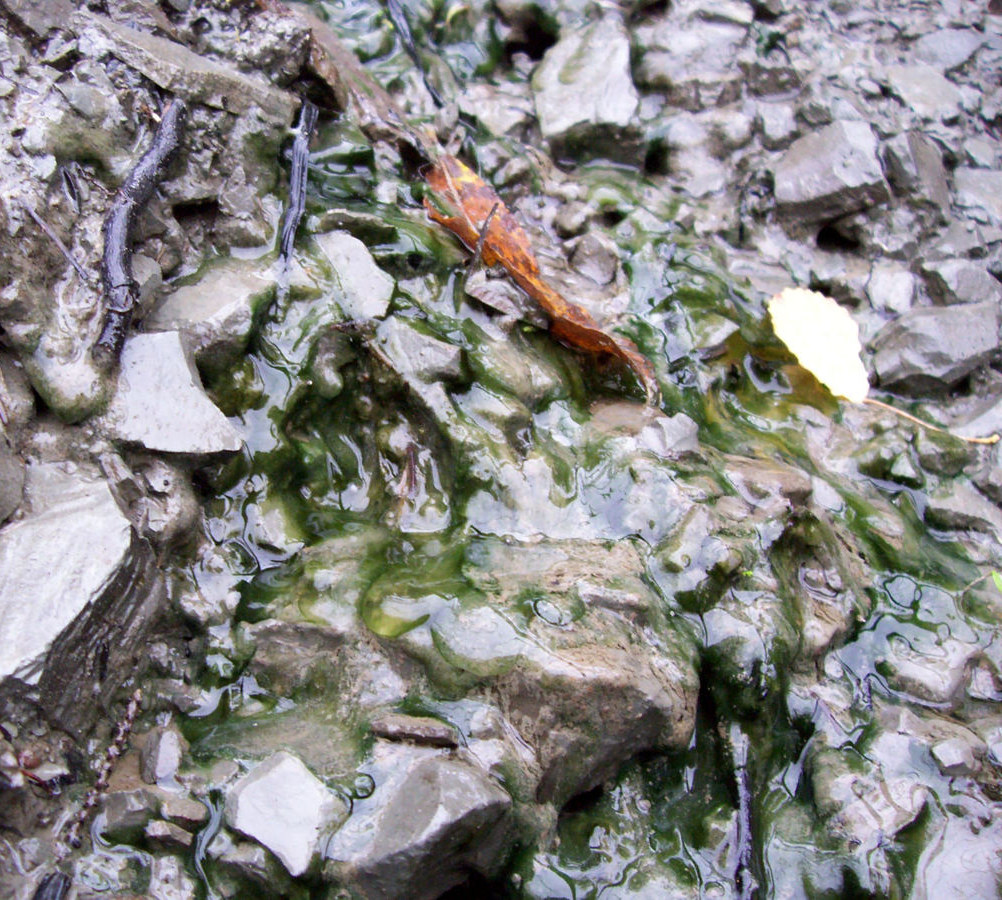 Modern cyanobacterial mat on the Ediacaran rocks of the White Sea area of Russia